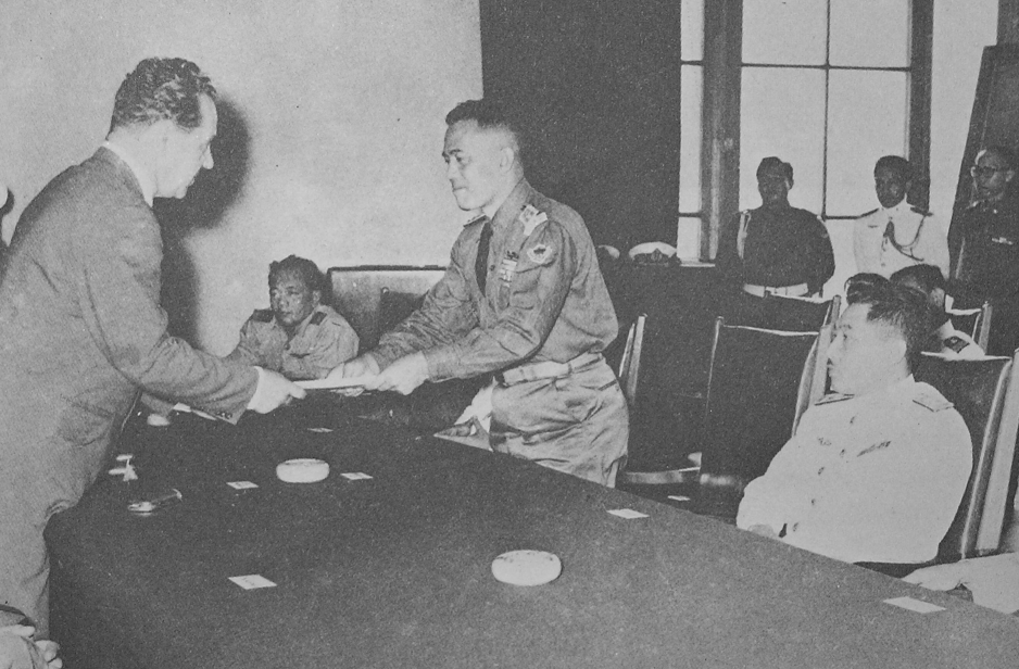 Nasution as Indonesian Defense Minister at the signing of an arms purchase agreement with the Soviet Union in 1961